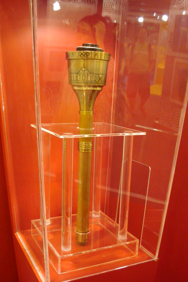 The Olympic Torch of 1984 Olympic Game